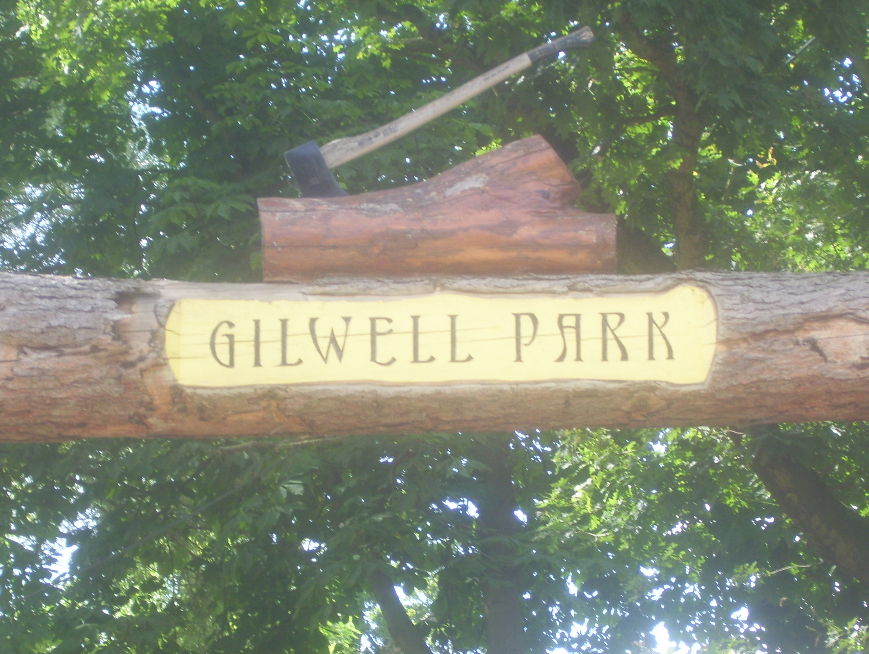 The axe and log on the top of the gate at Gilwell Park during the 2007 World Jamboree